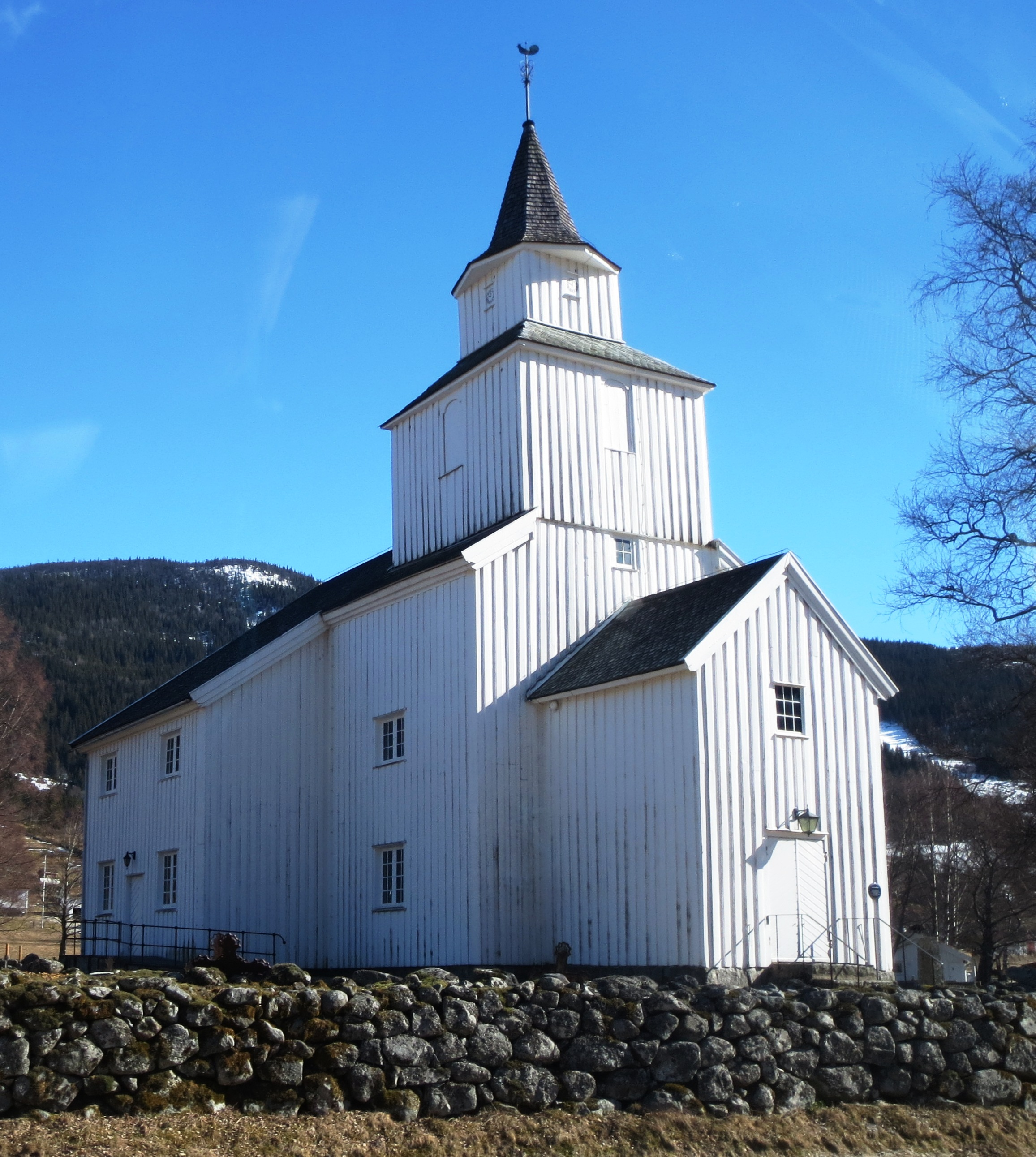 Valle municipality is the second from the north in the Setesdalen valley, Aust-Agder county, Norway.